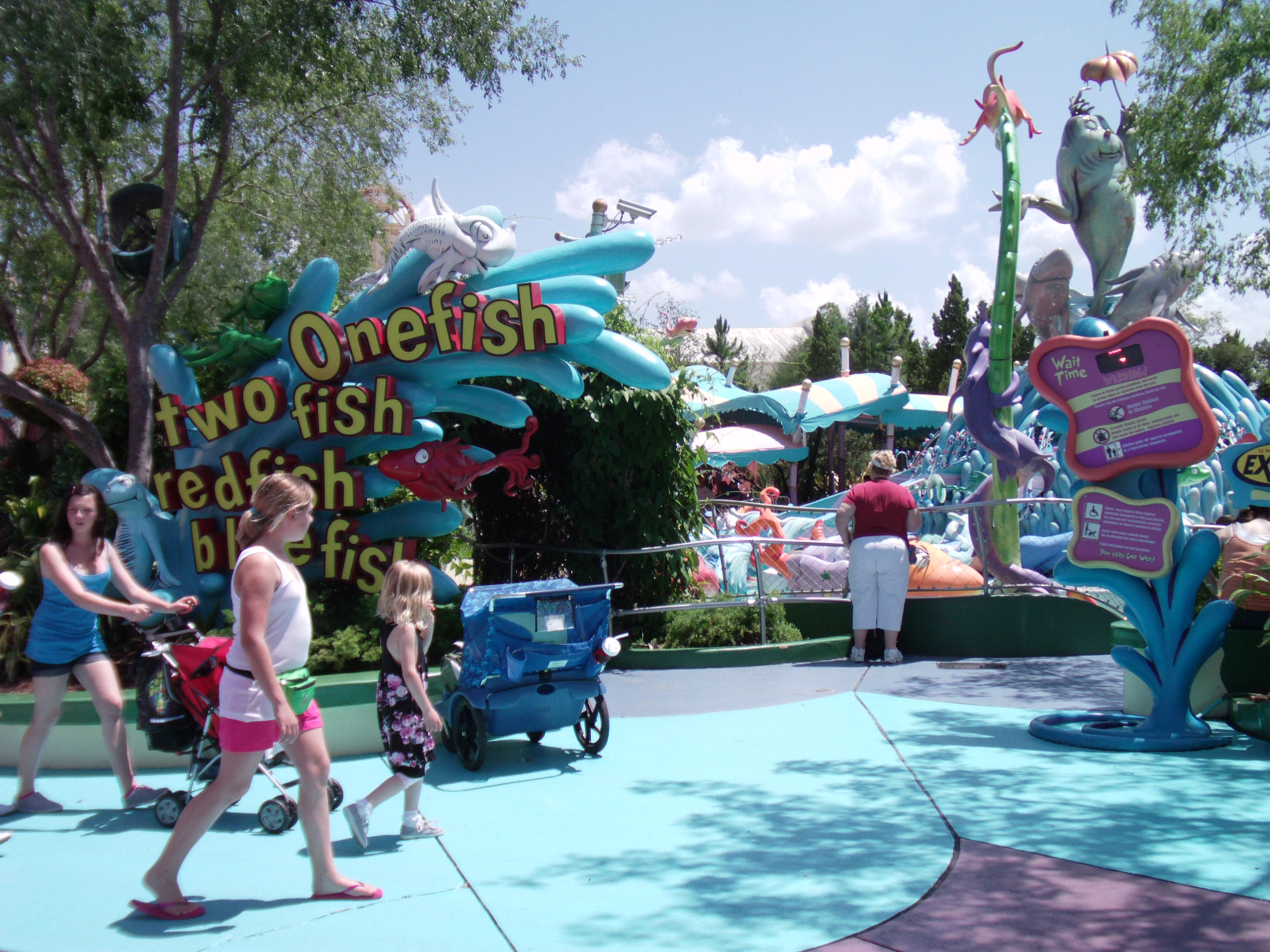 Entrance of One Fish Two Fish Red Fish Blue Fish at Islands of Adventure.